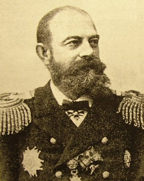 Avelan Fiodor Karlovitsch (1839 -1916) - admiral of Russia, Ministr